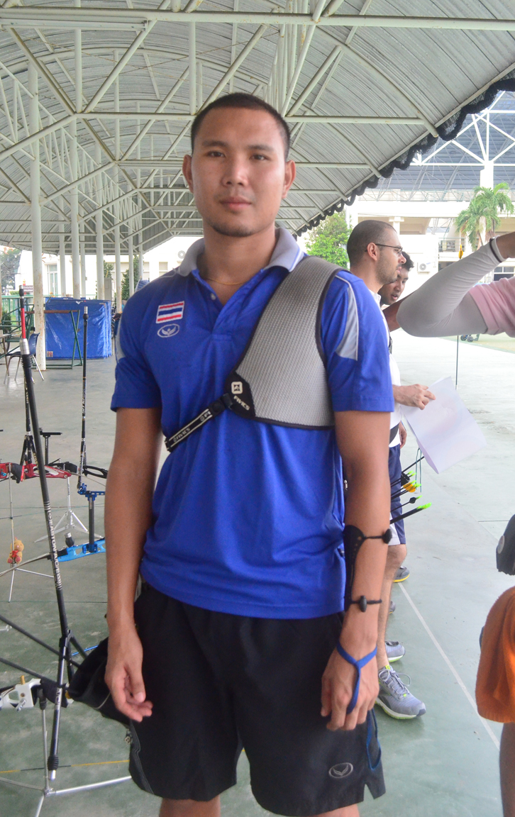 Witthaya Thamwong